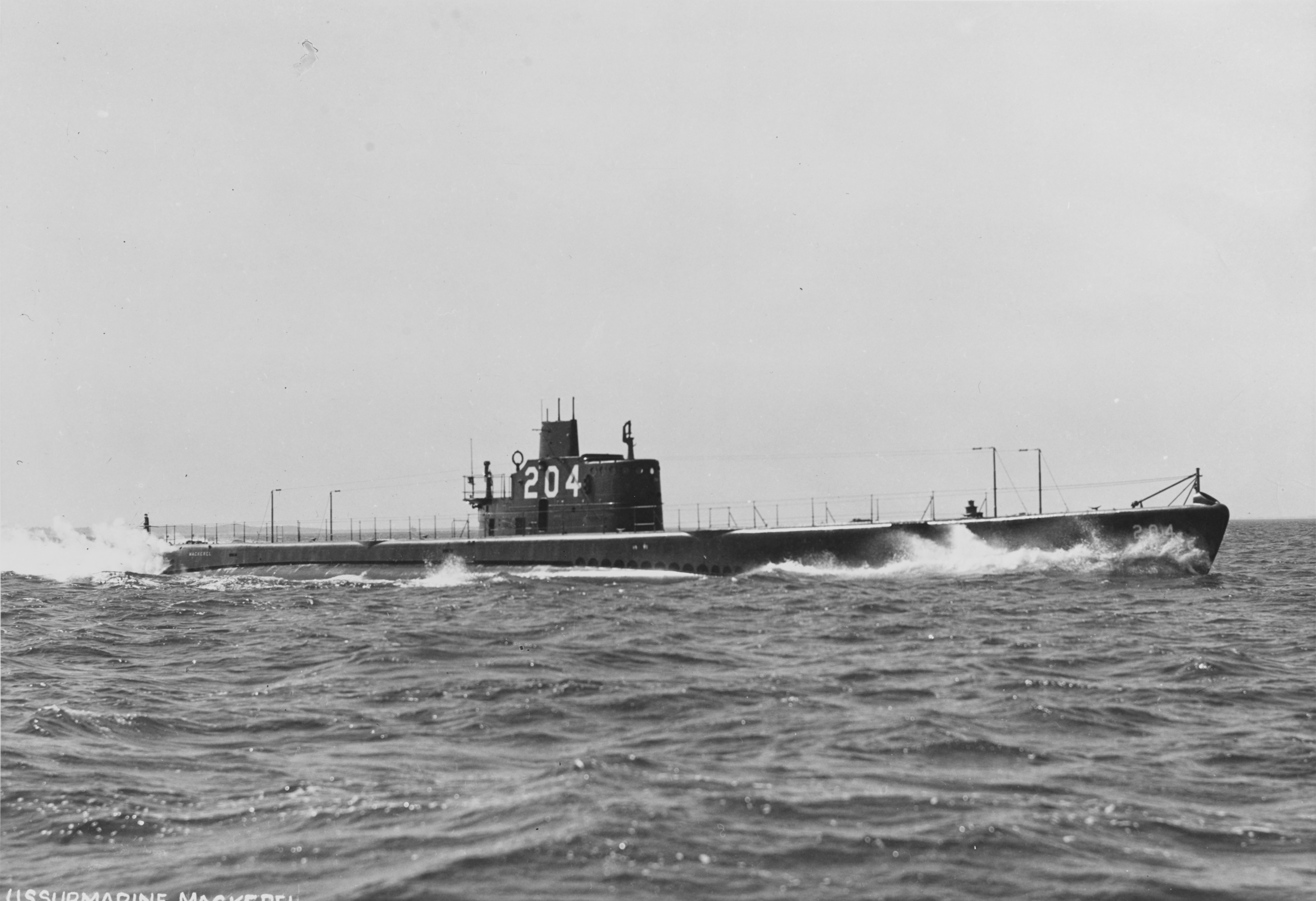 (SS-204) Making 16.0 knots while running trials, 22 March 1941. Photograph from the Bureau of Ships Collection in the U.S. National Archives.